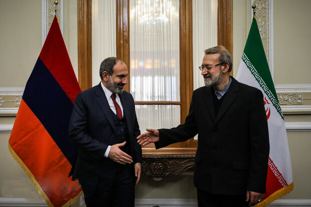 Nikol Pashinyan in Iran